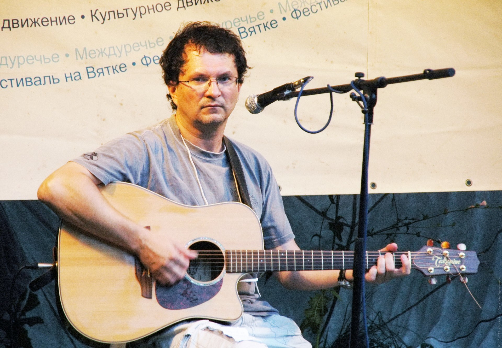 Serge Trukhanov (1961-2017) at Mezhdurechye stage on Platforma festival in Samara, Russia